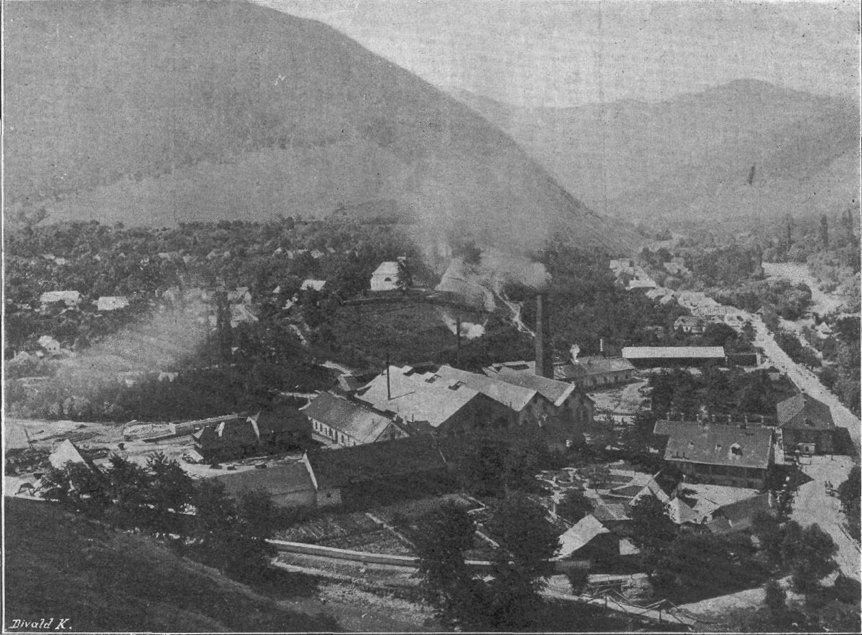 iron works in Cugir / Kudzsir / Kudsir (1896)